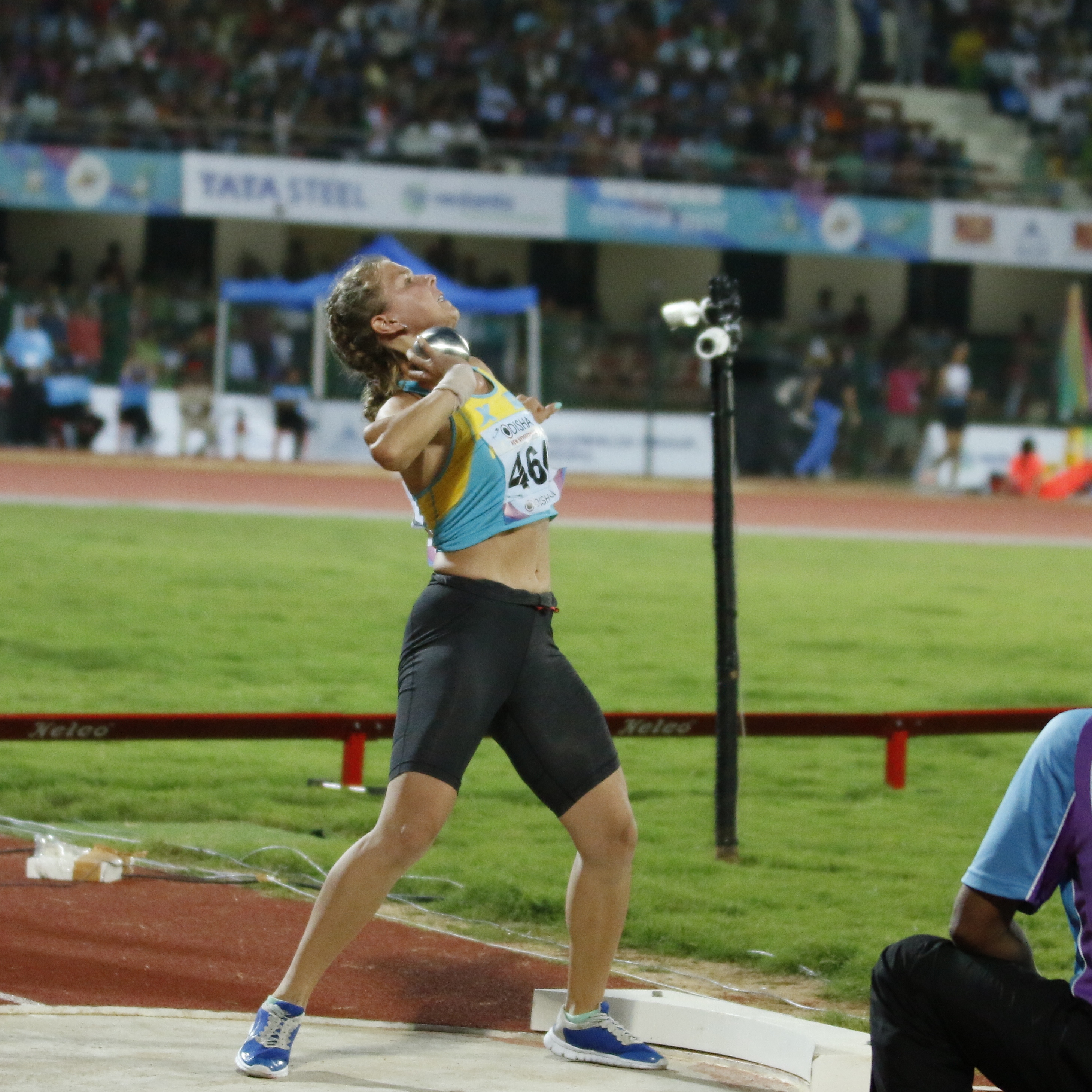 Nadezhda Kirnos from the 22nd Asian Games in Odisha. 2017 Asian Athletics Championships. 6 to 9 July 2017 at the Kalinga Stadium in Bhubaneswar